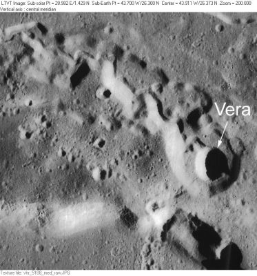 Vera is just north of Prinz (whose rim is partially visible at the bottom), and lies at one end of one of the several sinuous rilles comprising Rimae Prinz. About 20-km to the NNE is another named pit, Ivan. A little stream-like winding channel (about 400 m wide) meandering down the floor of the main rima seems to originate at Vera. A very similar structure (also with a little meandering stream) can be seen in the Cobra Head area of Schröter’s Valley.